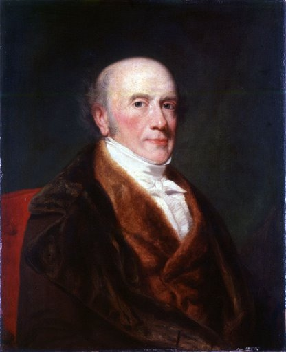 Alexander Baring, 1st Baron Ashburton (1774-1848)